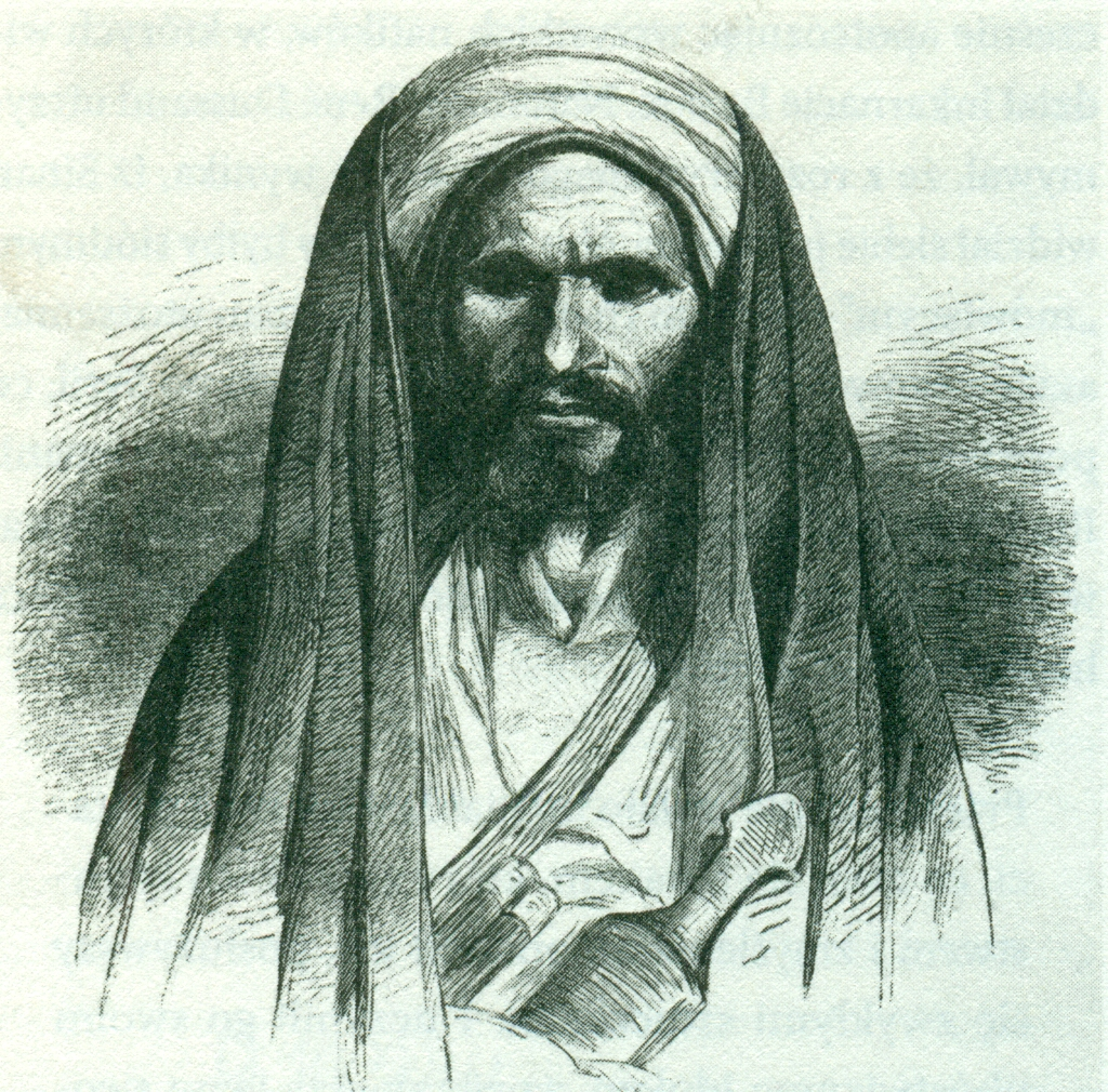 19th century engraving of The Elder from the Mountains